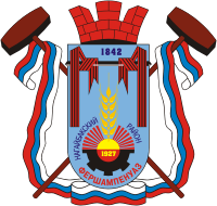 Fershampenuaz (Chelyabinsk oblast), coat of arms (1984)